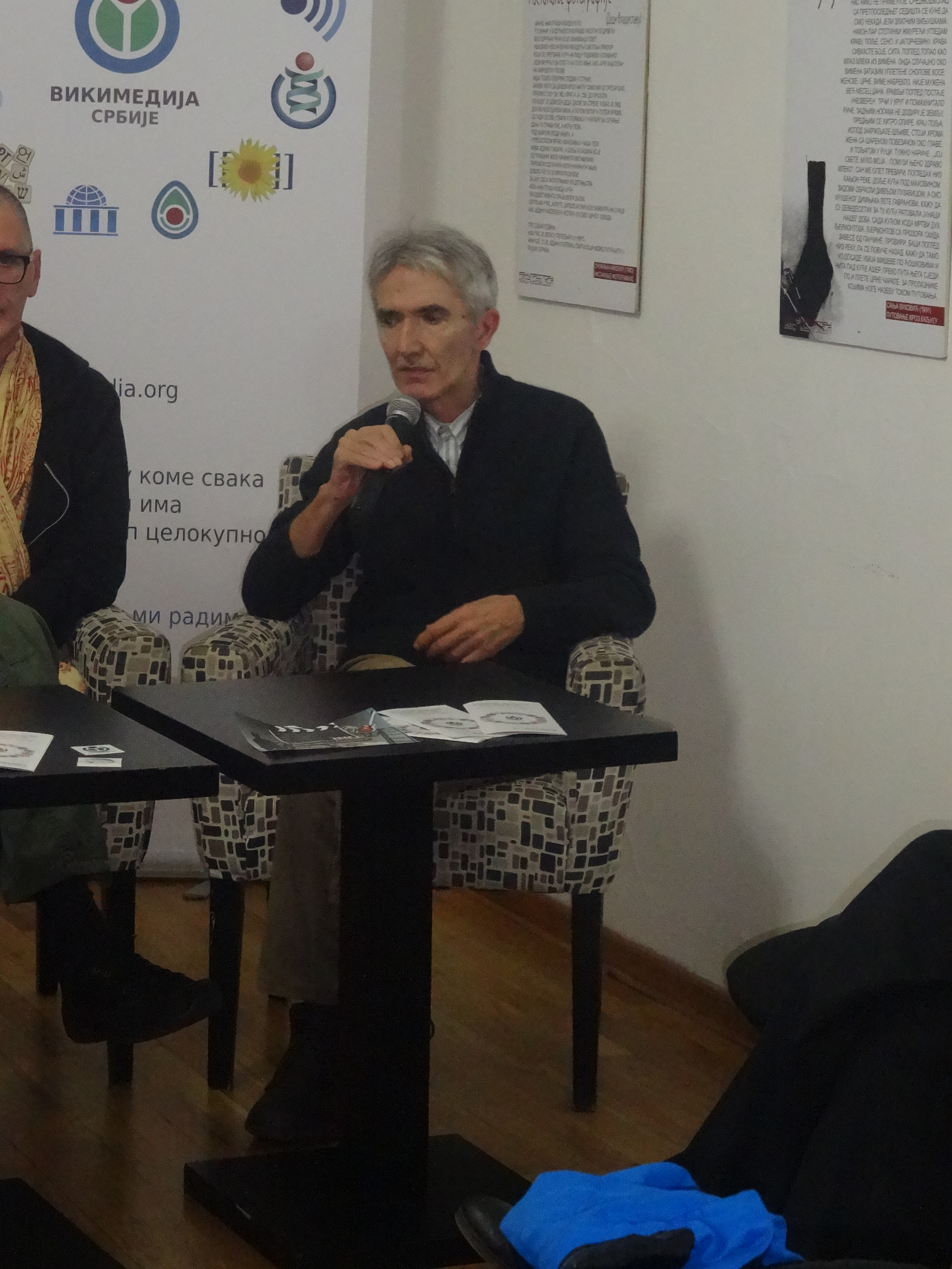 New wave in SFRY as a social movement - movie premiere at Student Culture Center. In the picture - Momčilo Rajin.